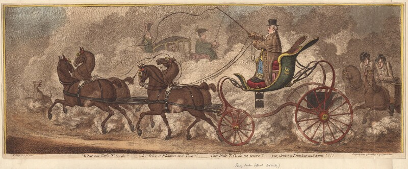 Thomas Onslow, 2nd Earl of Onslow by James Gillray, published by Hannah Humphrey hand-coloured etching, engraving and aquatint, published 1 May 1801